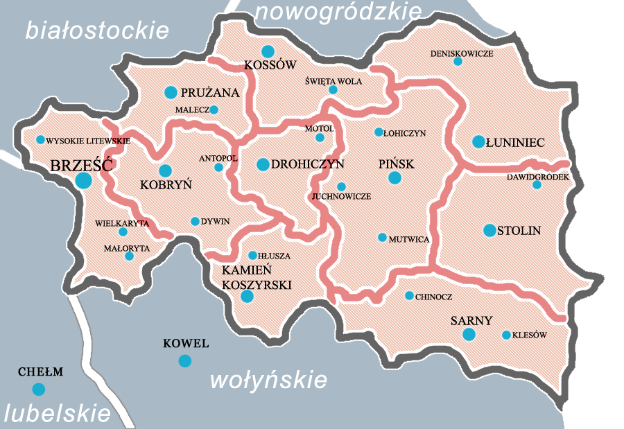 Administrative map of the voivodeship. Note: in 1930 Sarny county became part of the Volhynian Voivodeship.